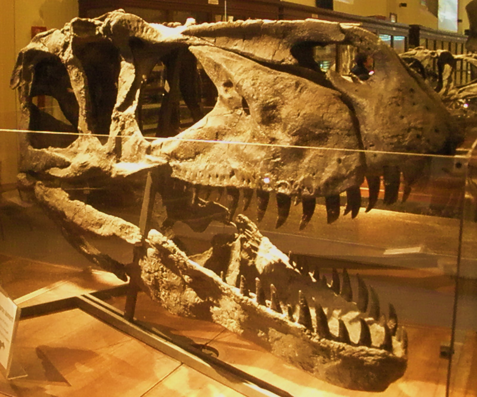 Fossil of Torvosaurus tanneri, an extinct theropod